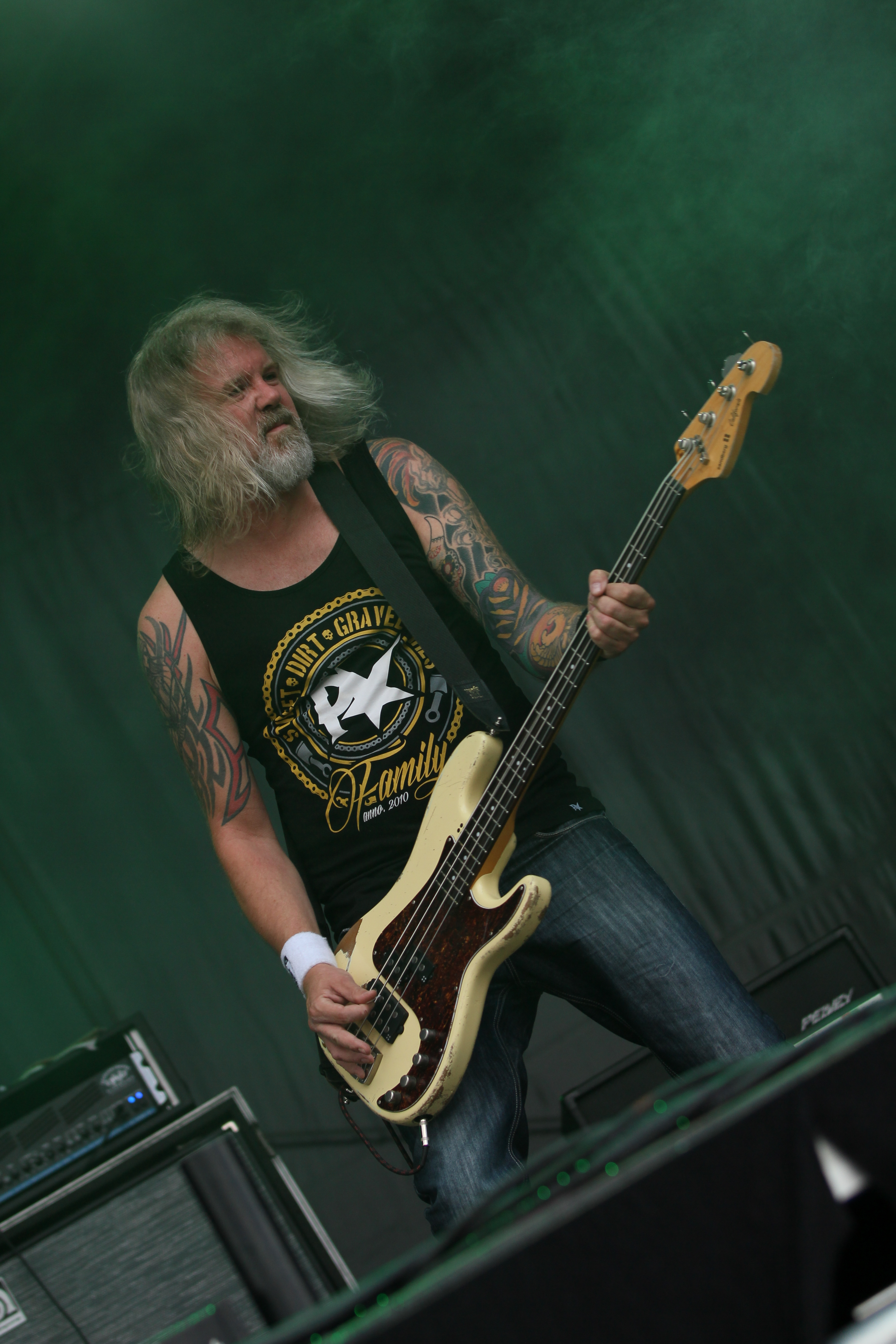 The Swedish gothic metal band Tiamat at the Rockharz Open Air 2014 in Ballenstedt/Germany